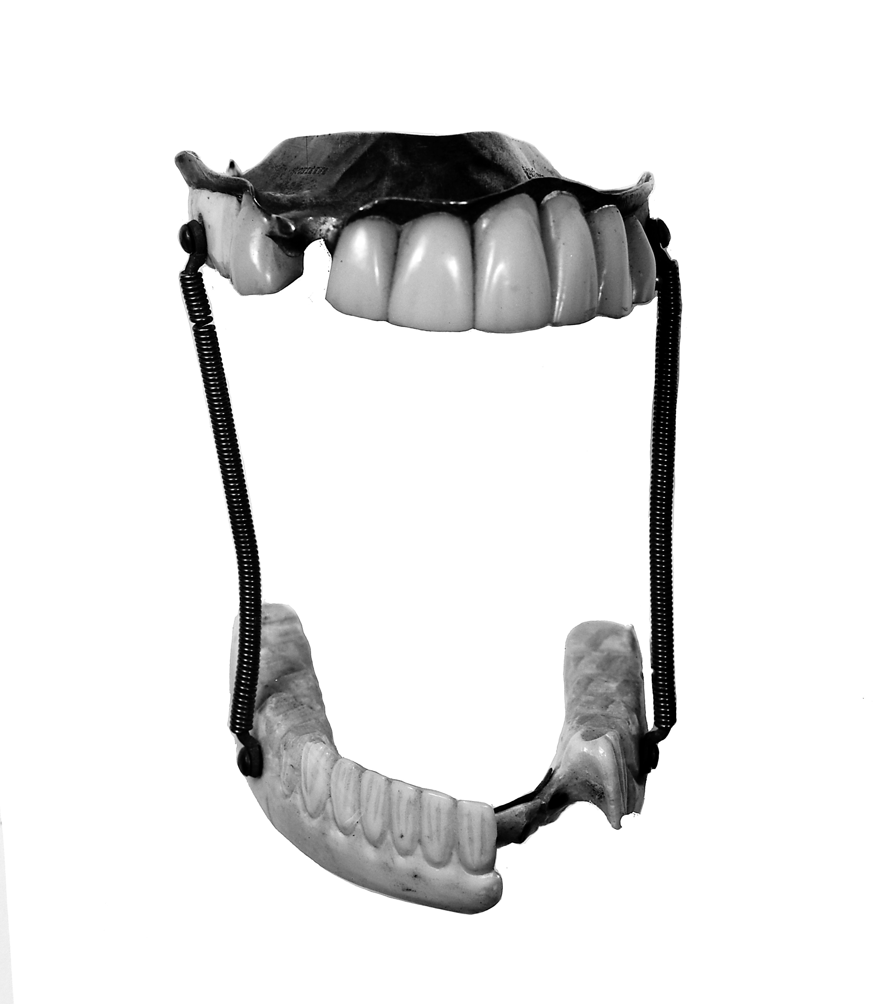 Upper and lower denture held together by springs. The lower carved in ivory and the 'gums' coloured pink: the upper teeth pegged into metal plate. Wellcome Images